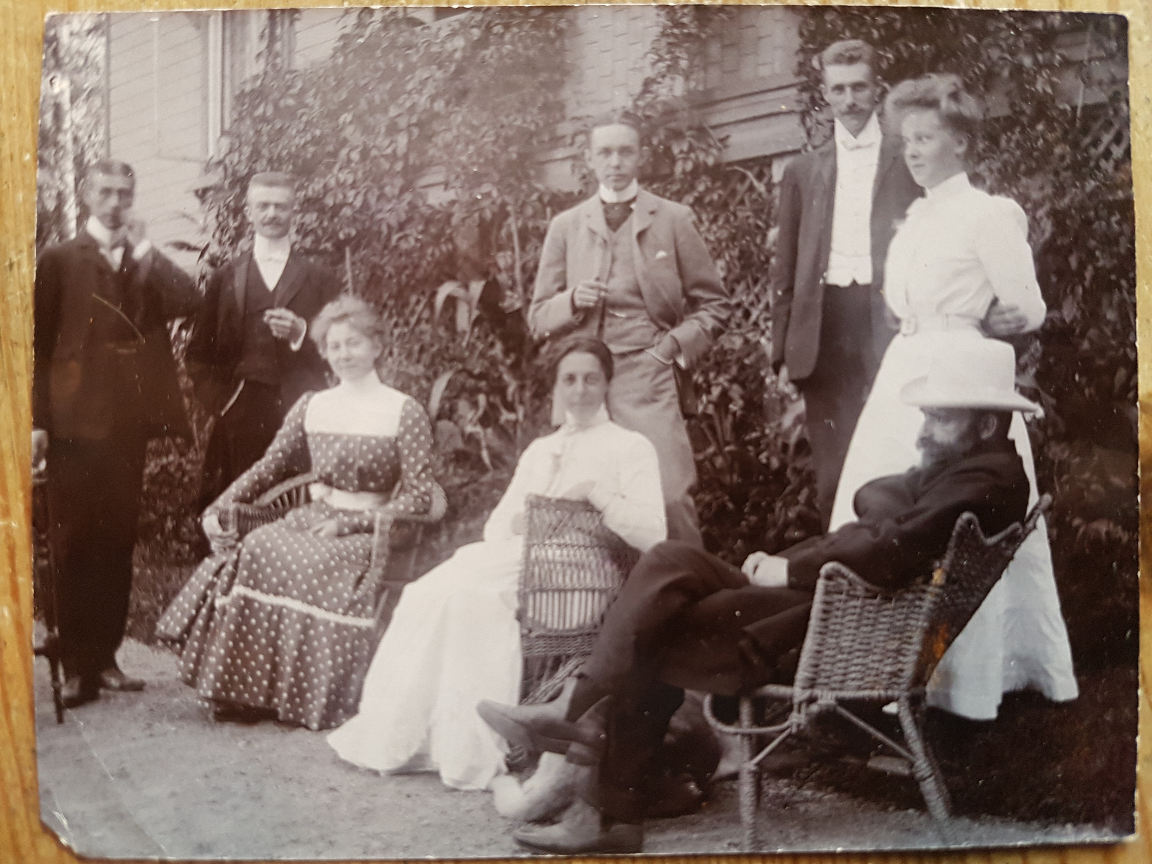 The image shows Otto Salomon sitting in a chair. Hes sick but he has rock star / guru status. Hes a living legend in Swedn and europe.